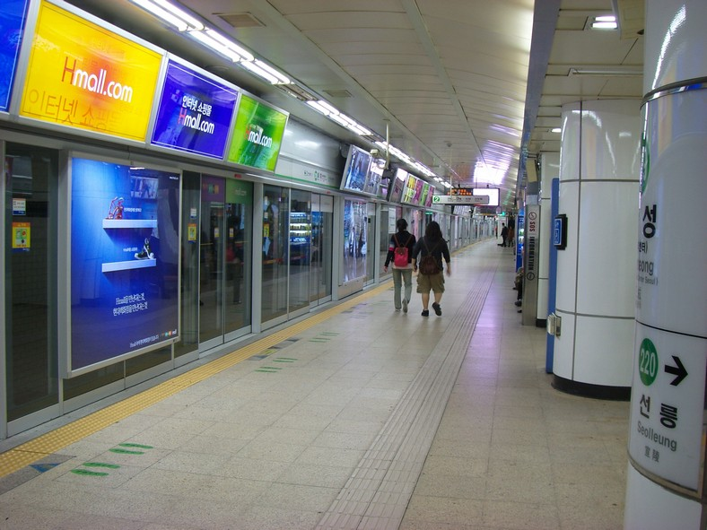 Samseong Station